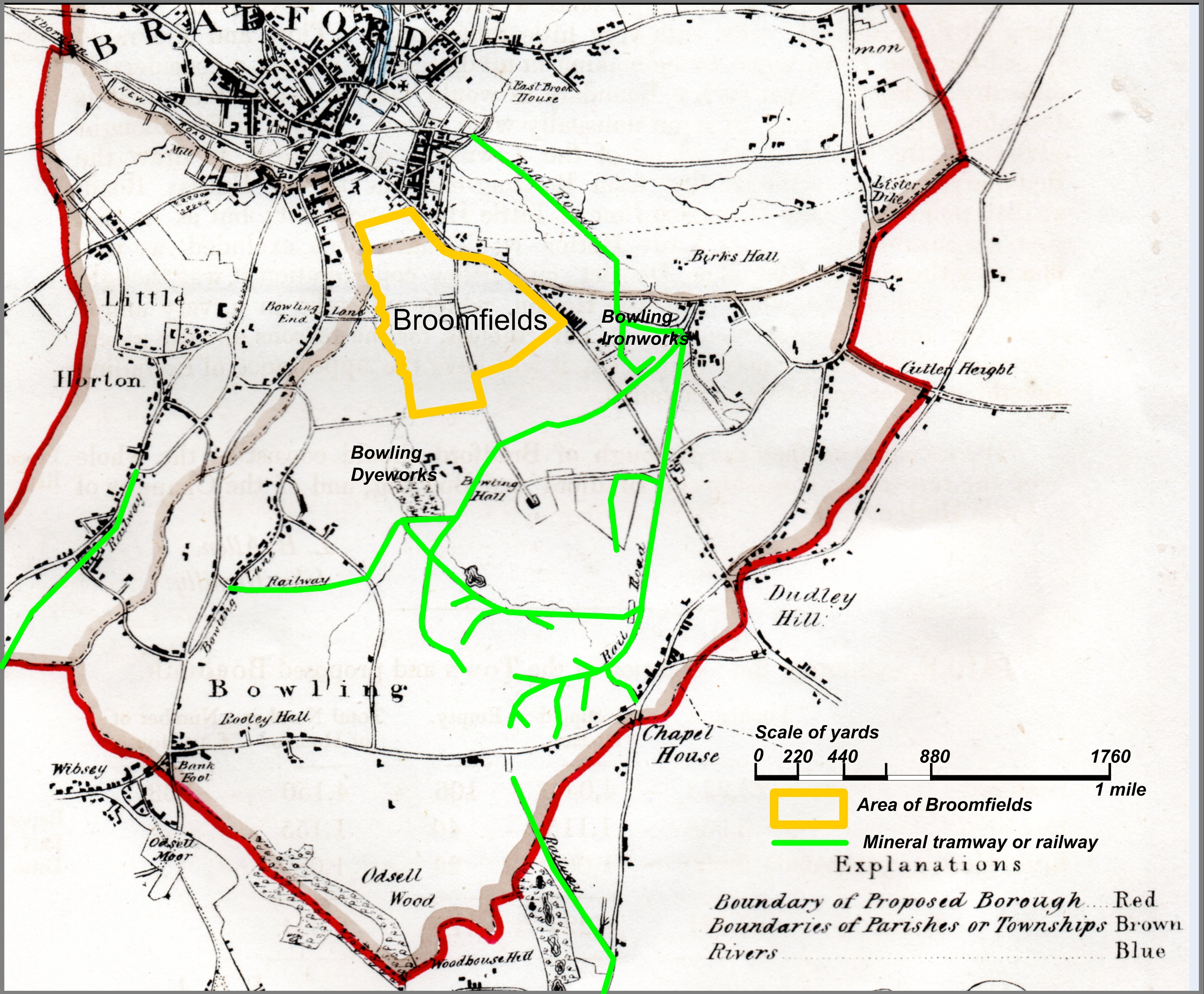 Extract from 1831 map of proposed parliamentary borough boundaries. Broomfields added and tramways enganced. Other information Committee charged with determining boundaries for the new parliamentary boroughs proposed by the 1831 bill. Passed into law 1932.